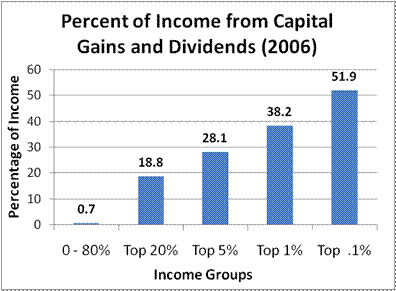 Percent of income from capital gains and dividends in the United States (2006).